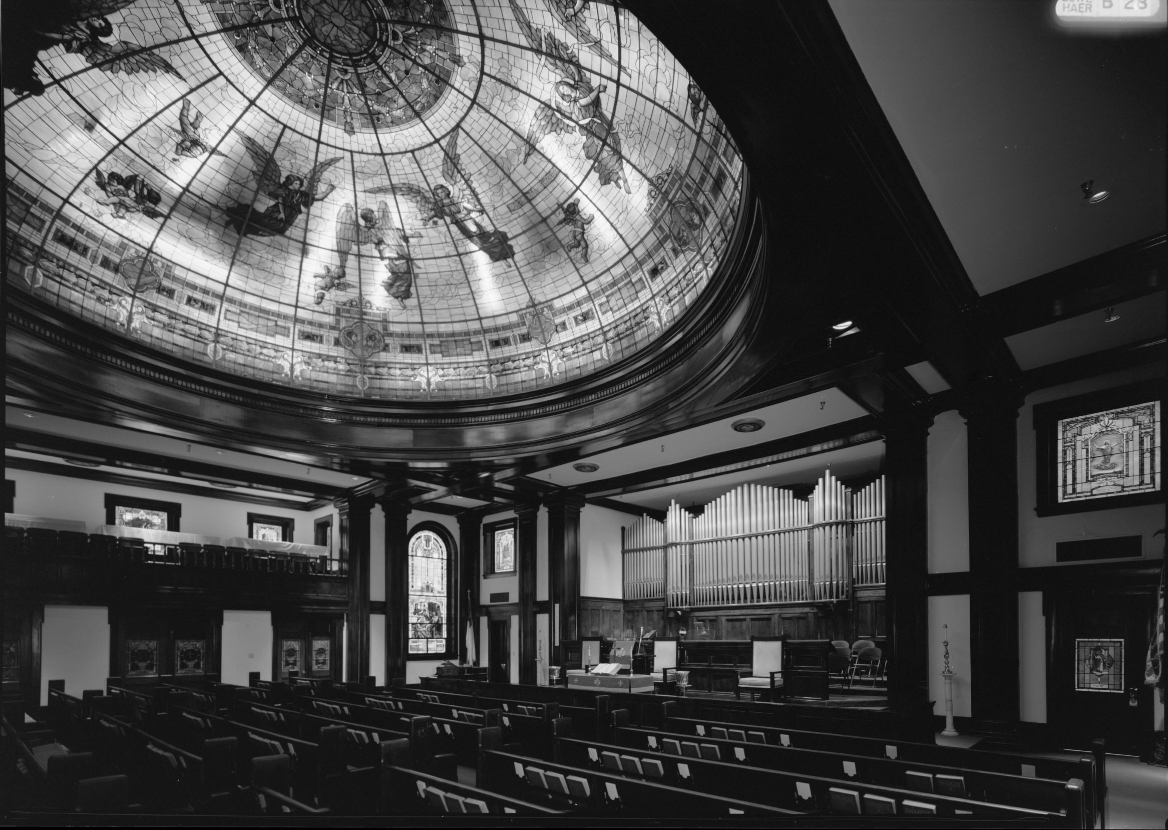 First Methodist Church, 1900 Third Avenue North, Jasper, Walker County, AL. INTERIOR VIEW, SANCTUARY, PEWS, STAINED GLASS WINDOWS AND STAINED GLASS DOME .